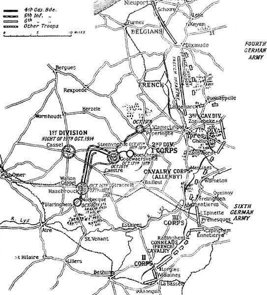 Diagram showing the positions of Allied and German armies in Flanders on 19 October 1914